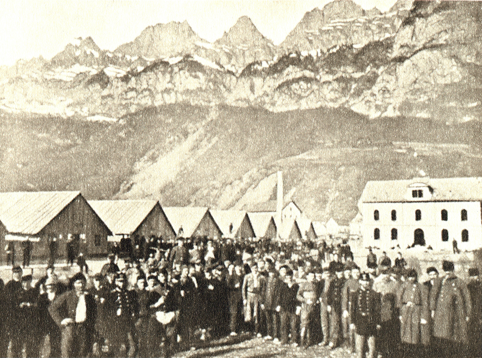 A picture of interned soldiers of the Bourbaki-Army in Walenstadt, Switzerland; Spring 1871